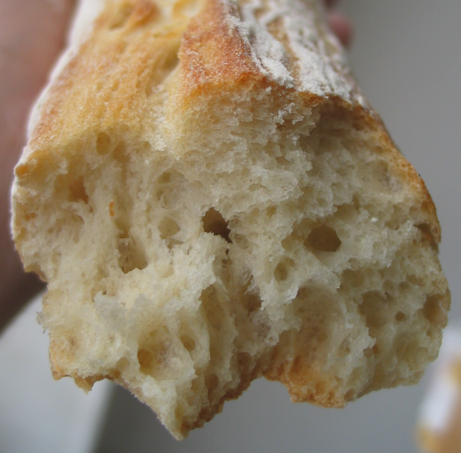 Traditional French baguette